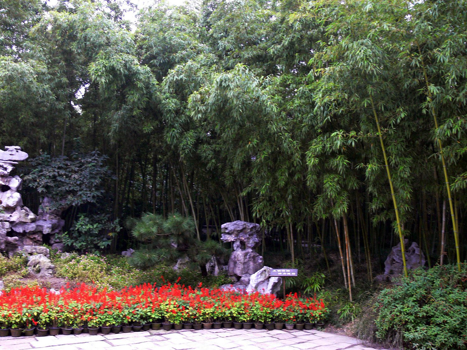 Ge Yuan: The Bamboo Garden in Yangzhou扬州个园